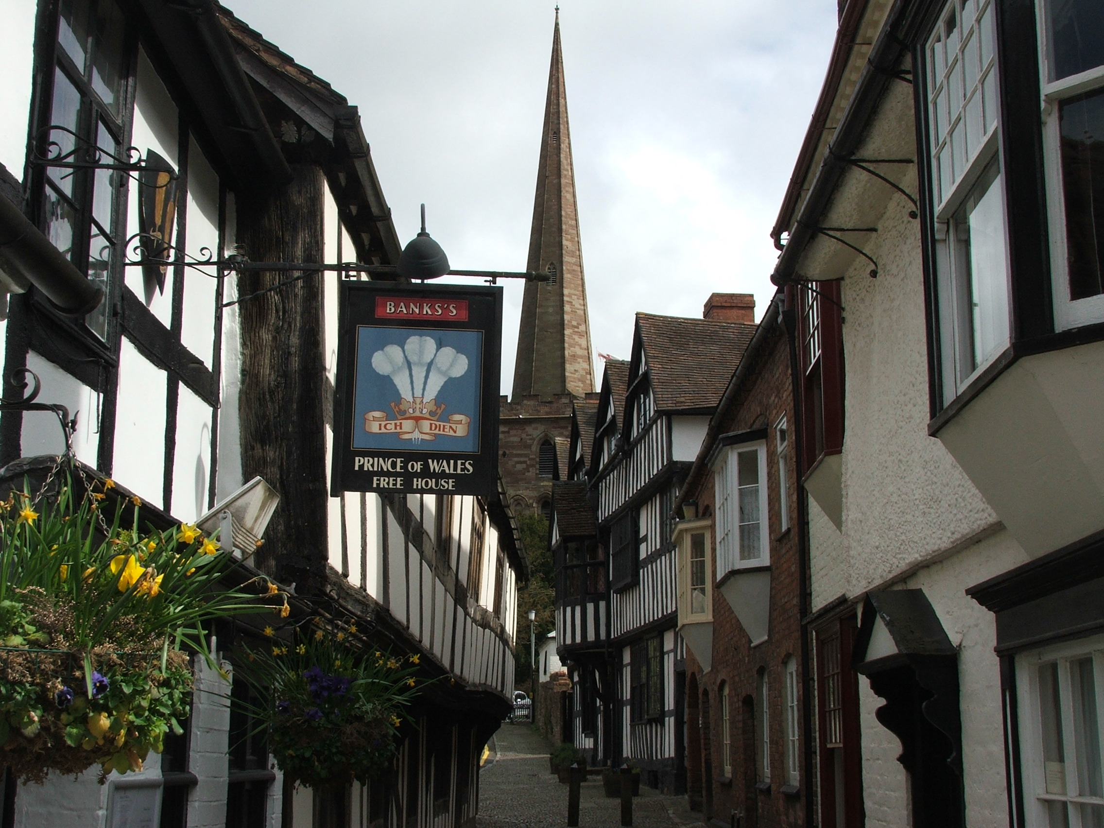 Church Street in Ledbury